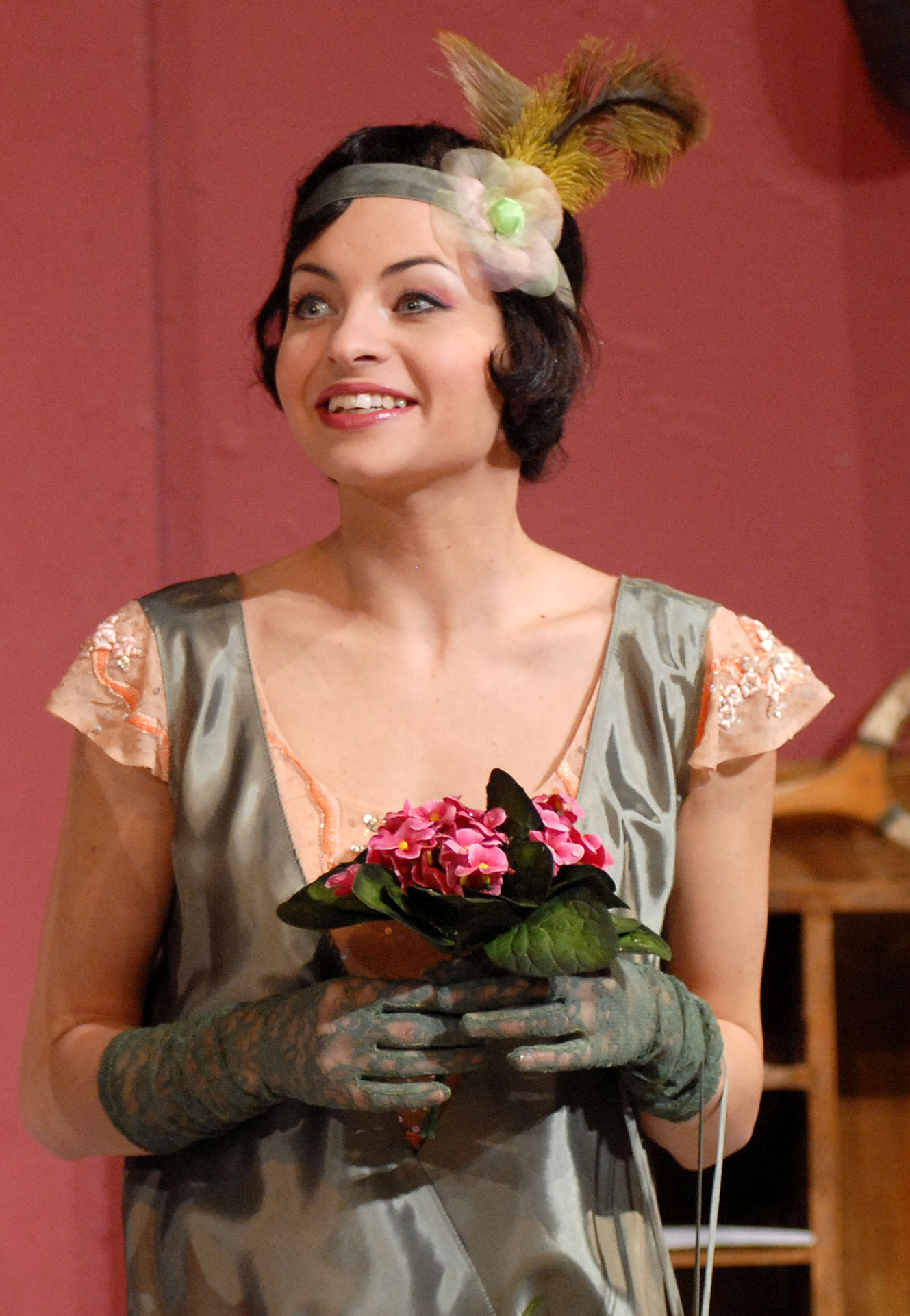 Radka Coufalová